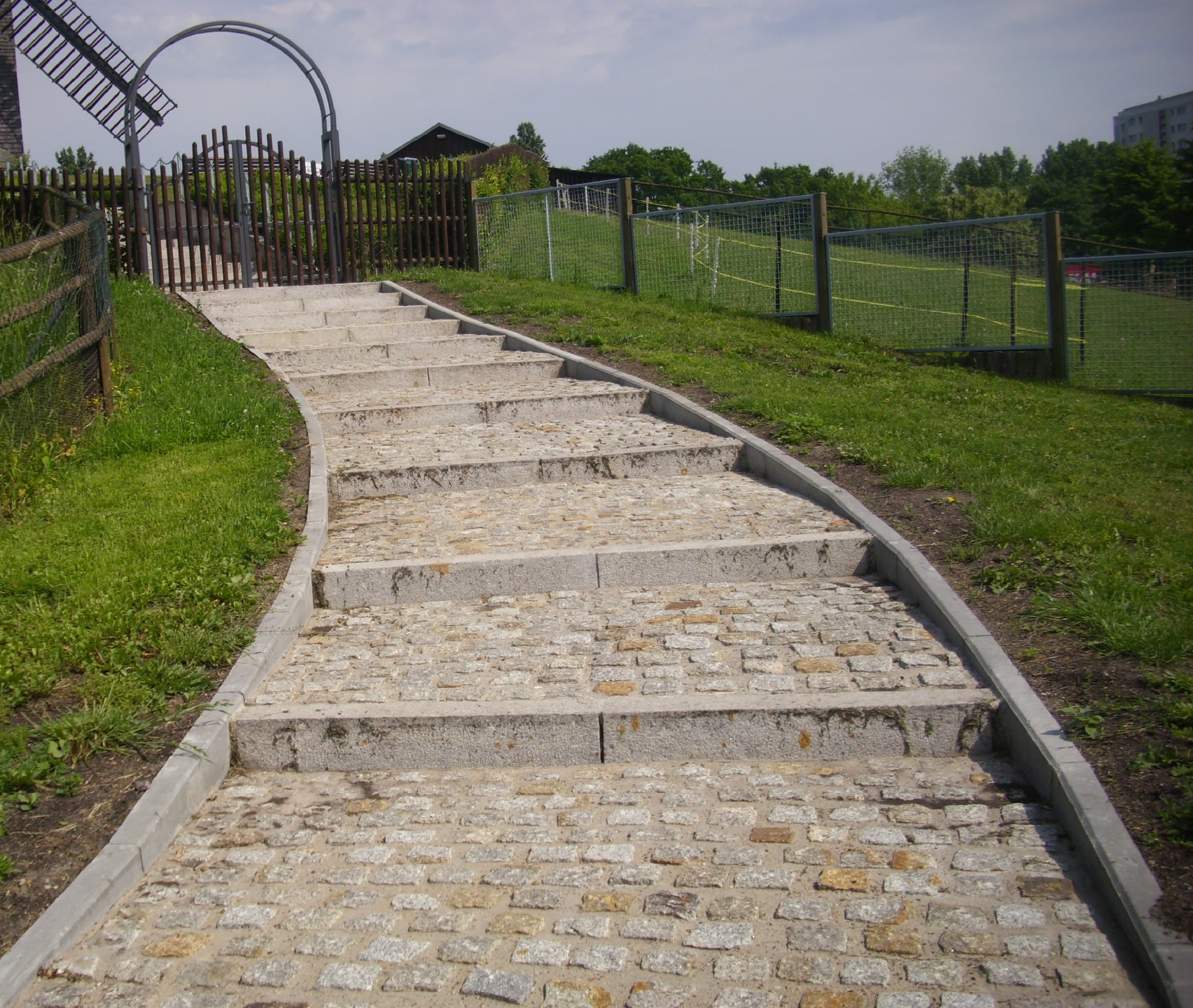 Bridal Staircase